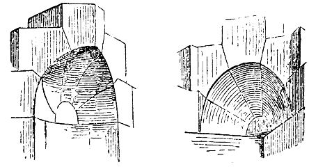 Trompe